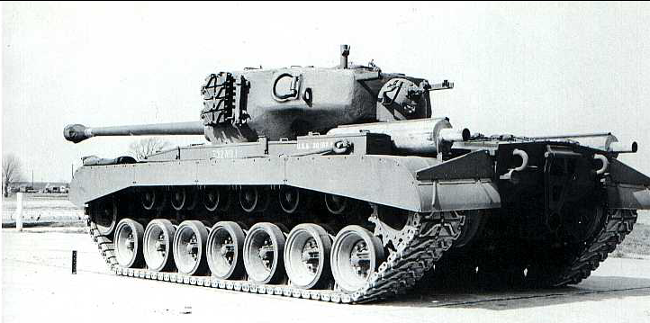 The T32 heavy tank from the left rear shows the rear ventilating hood which was added to the turret. The T32 was improved from the M26.